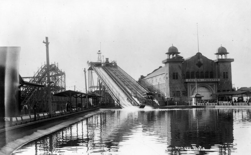 View of the Washington Gardens Amusement Park. View 1: shows the Chutes water ride and Chutes Theater next to it.